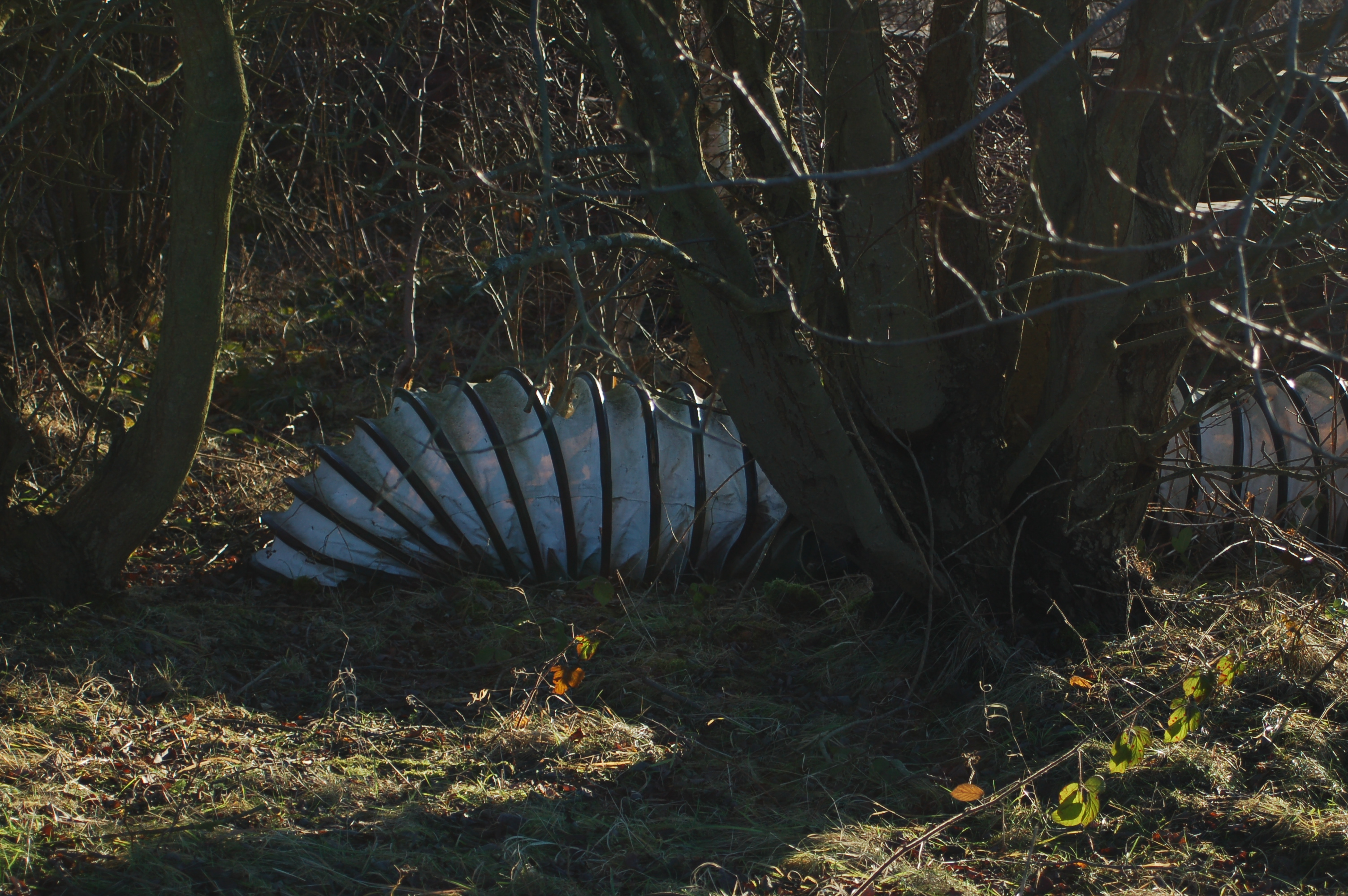 Discarded ventilation duct on the former site of Marley Hill Colliery.